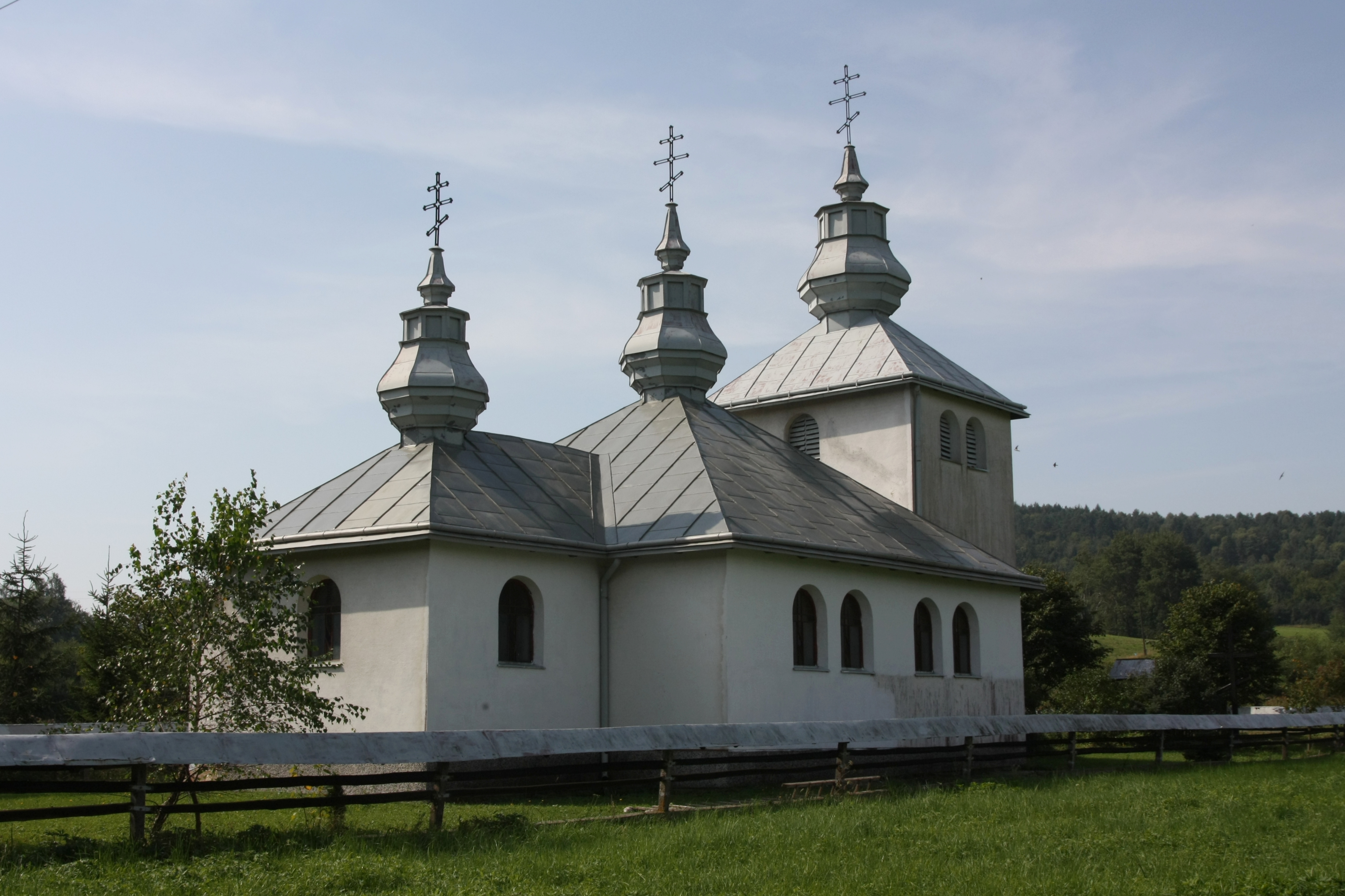 Saint Nicholas Orthodox church in Zyndranowa.